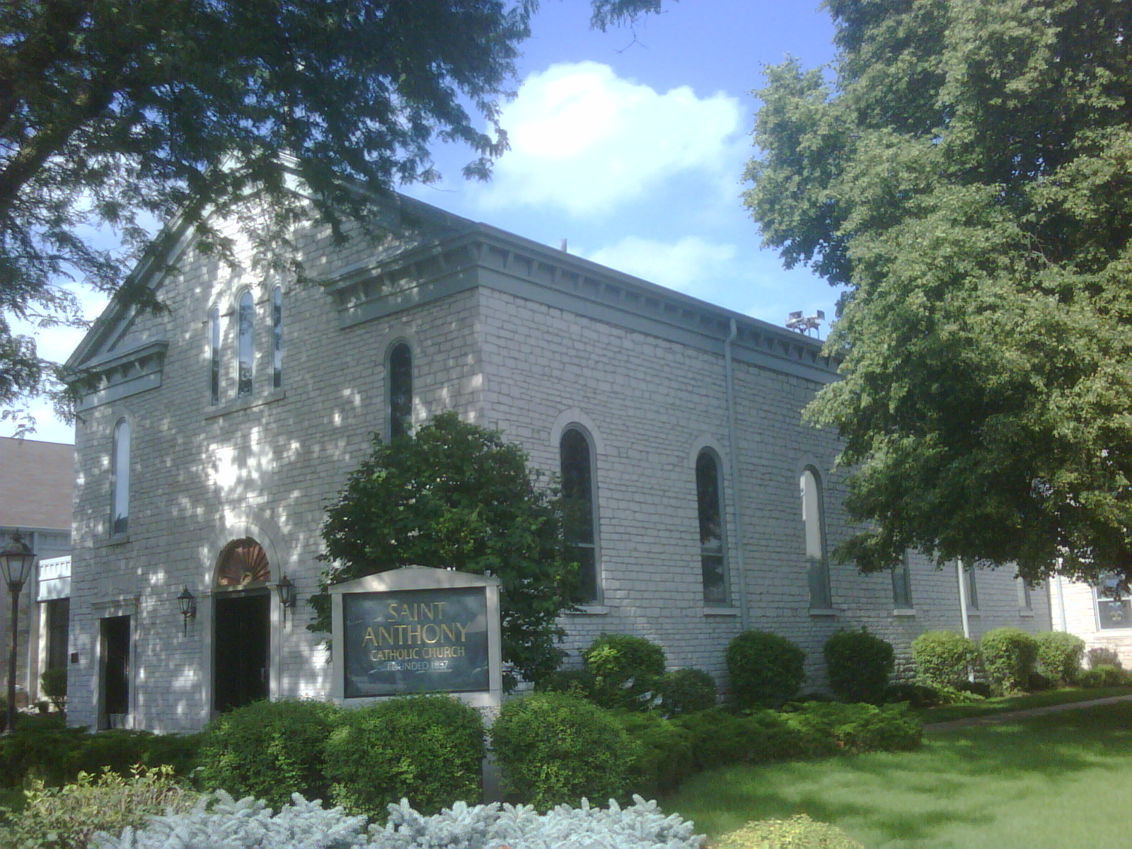 St. Anthony's Catholic Church in Davenport, Iowa, which is on the National Register of Historic Places.